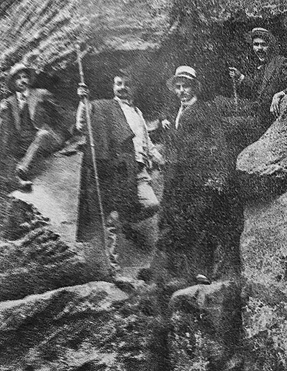 Rafail Popov (middle left) with Krum Dronchilov (middle right) in Czech Republic